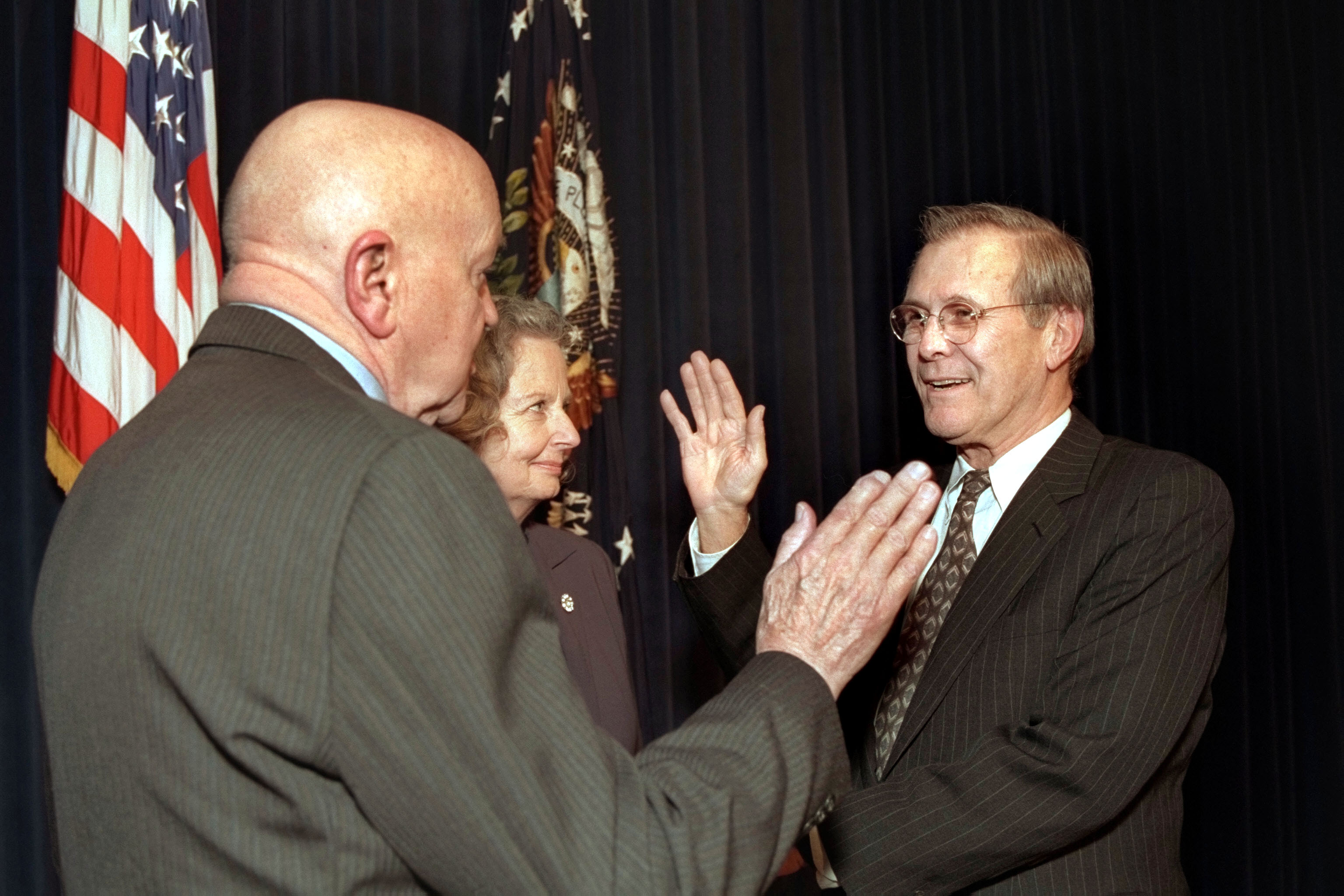 Donald Rumsfeld (right) is administered the oath of office as the 21st Secretary of Defense by David O. Cooke (left), as Joyce Rumsfeld holds the Bible in a ceremony at the Eisenhower Executive Office Building. Rumsfeld was previously the 13th Secretary of Defense from 1975 to 1977. Cooke is the director of Administration and Management at the Department of Defense.